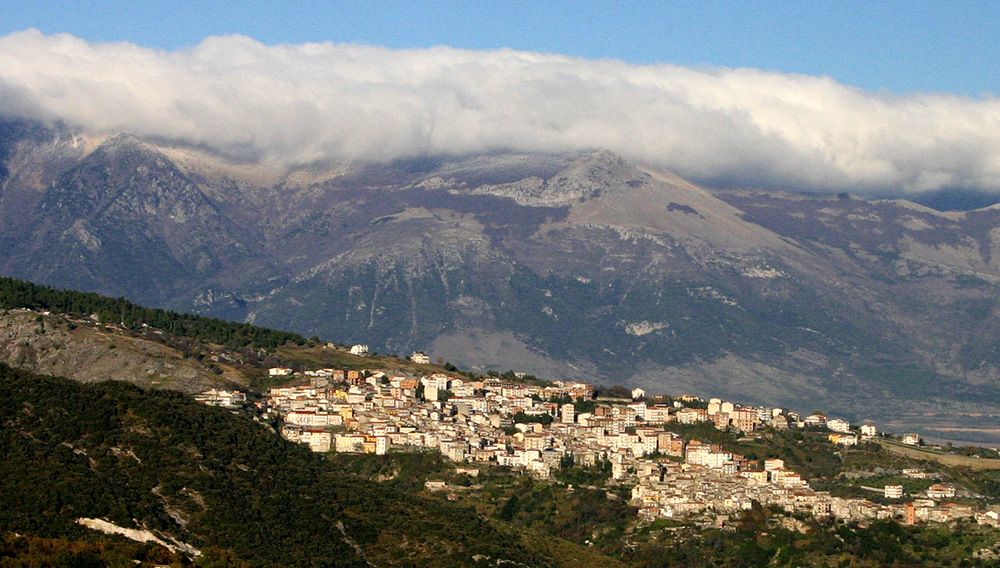 The view of Saracena from Lungro, Calabria region, South Italy